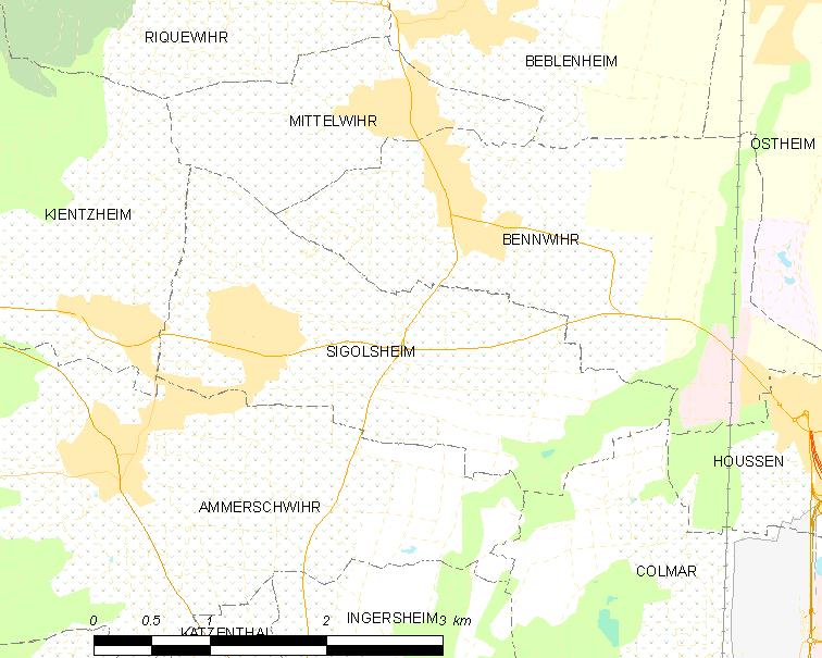 Map of French municipality